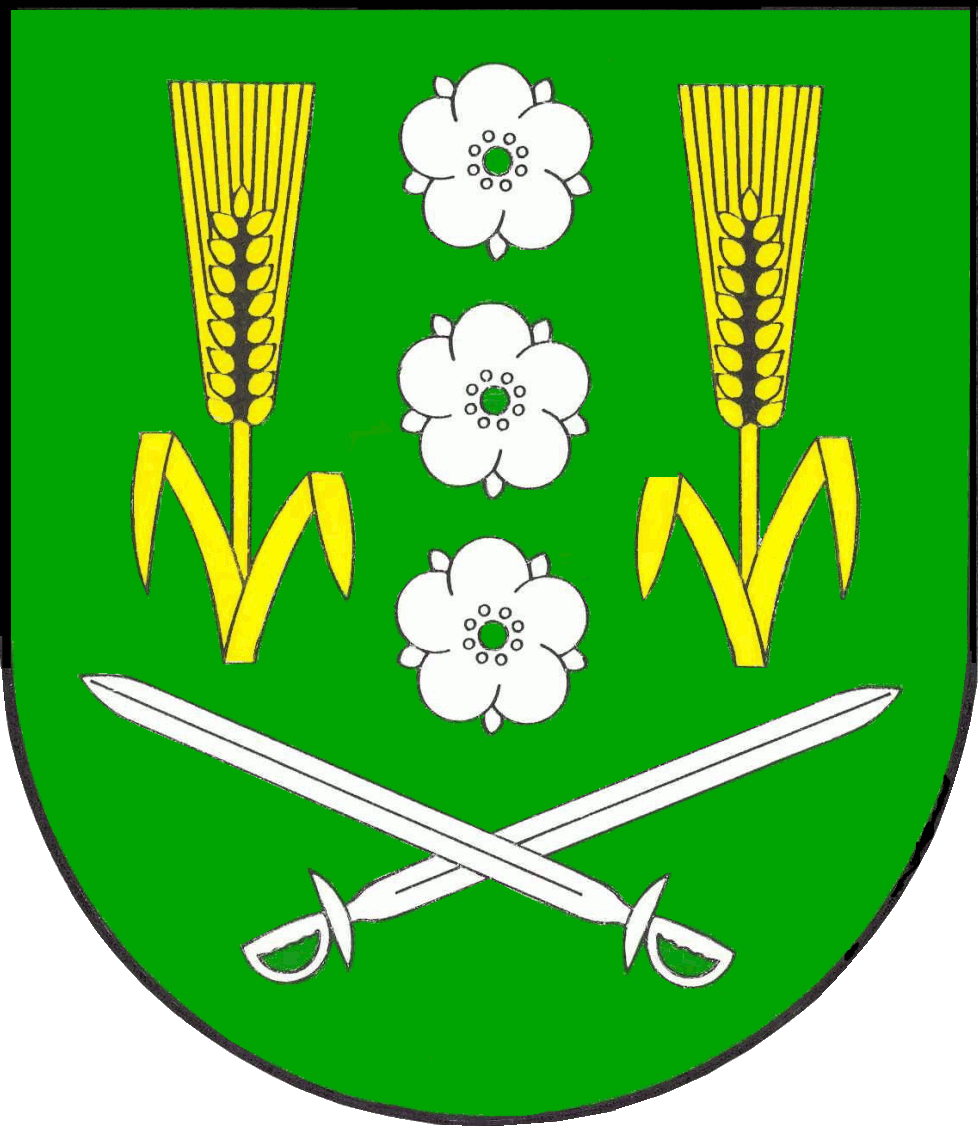 Coat of arms of the municipality Süderhastedt in Schleswig-Holstein, Germany.